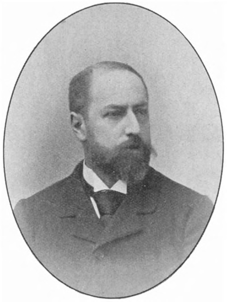 nameJhr. Mr. F. W. VAN STYRUM. political affiliationliberalism positionmember of the House of Representatives of the Netherlands electoral districtHaarlem